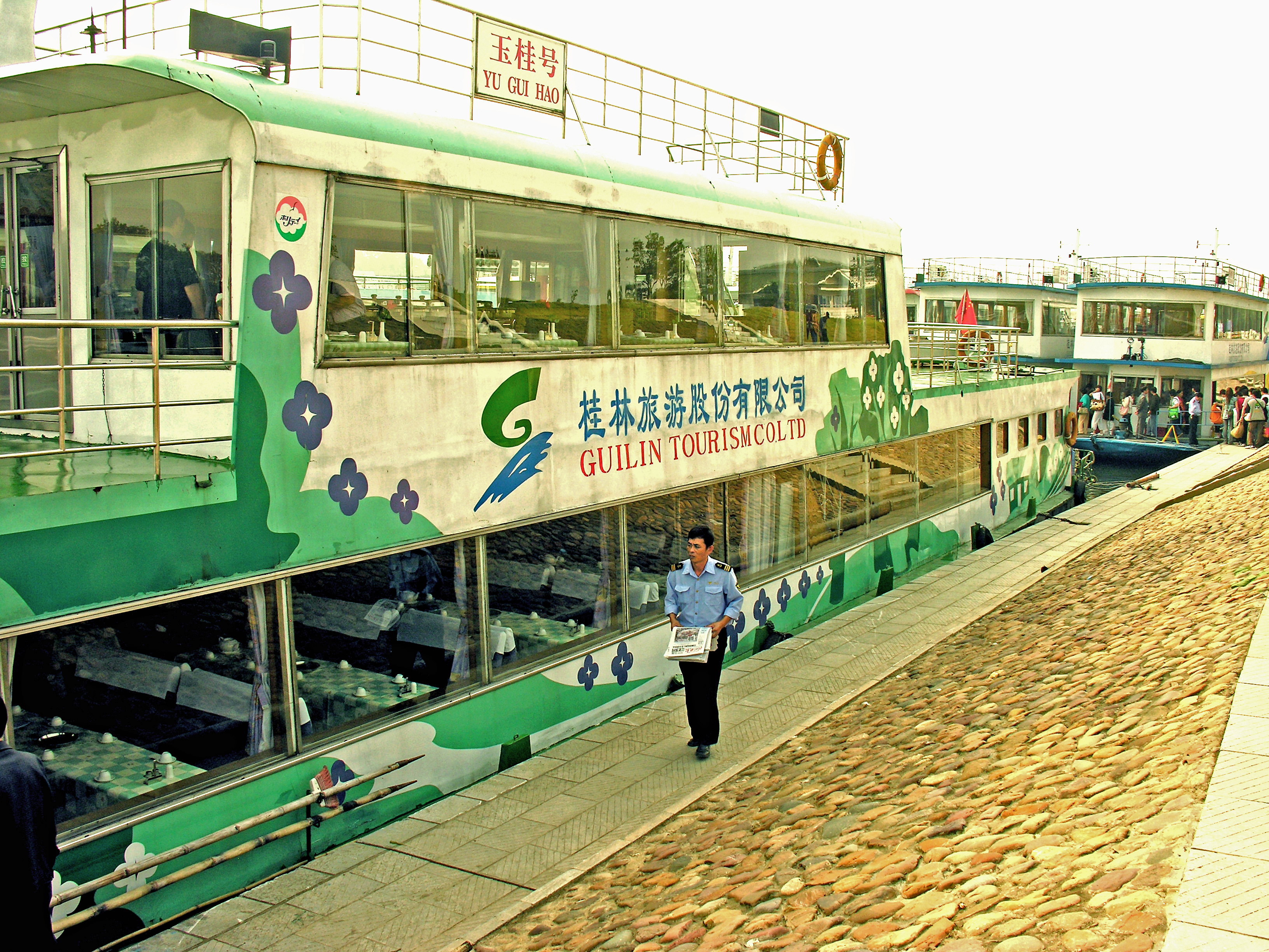 This boat was similar to the one I was on.